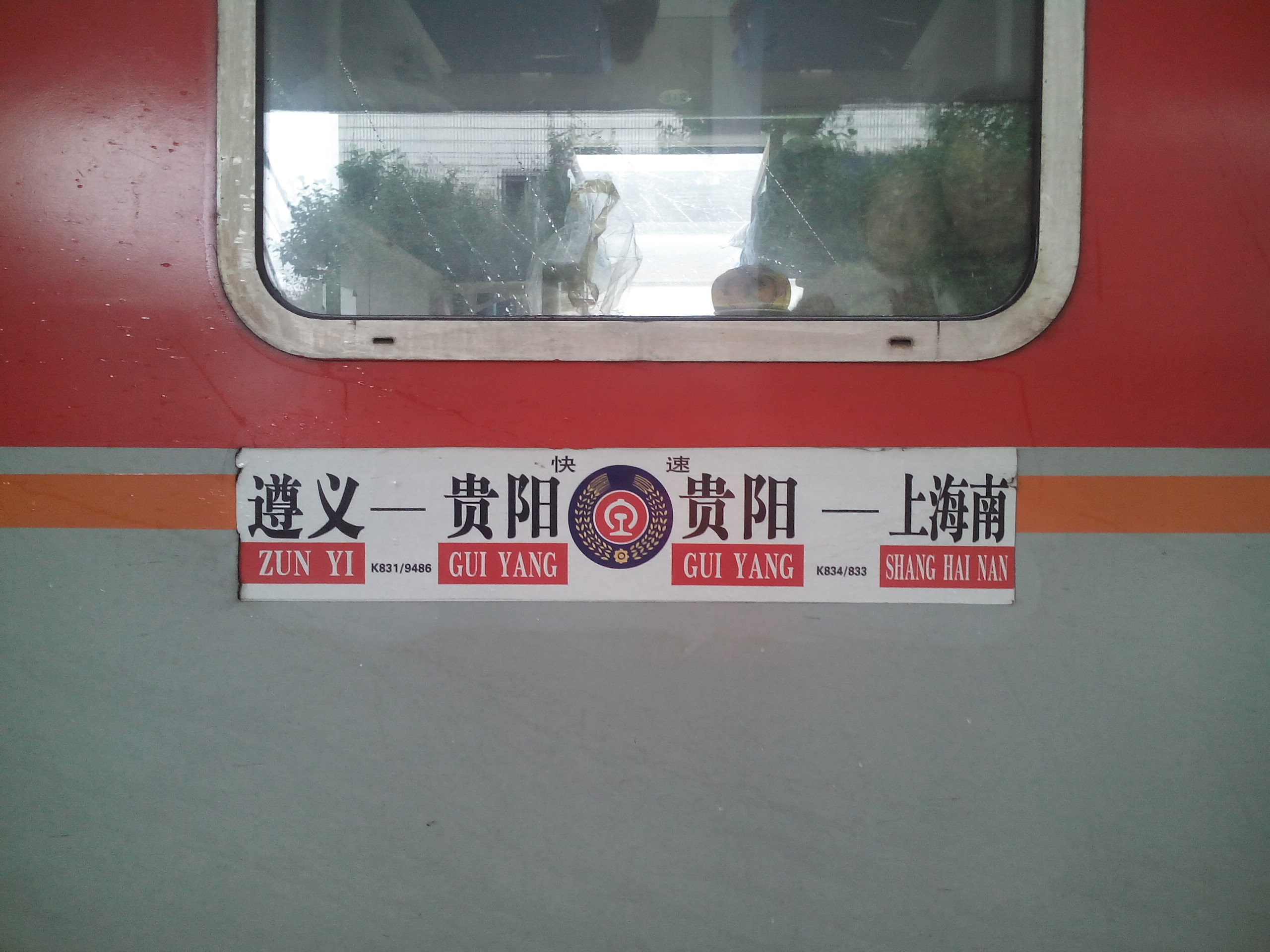 K833 834 831 9486 infoboard in 201507. Taken at Jinhua Station